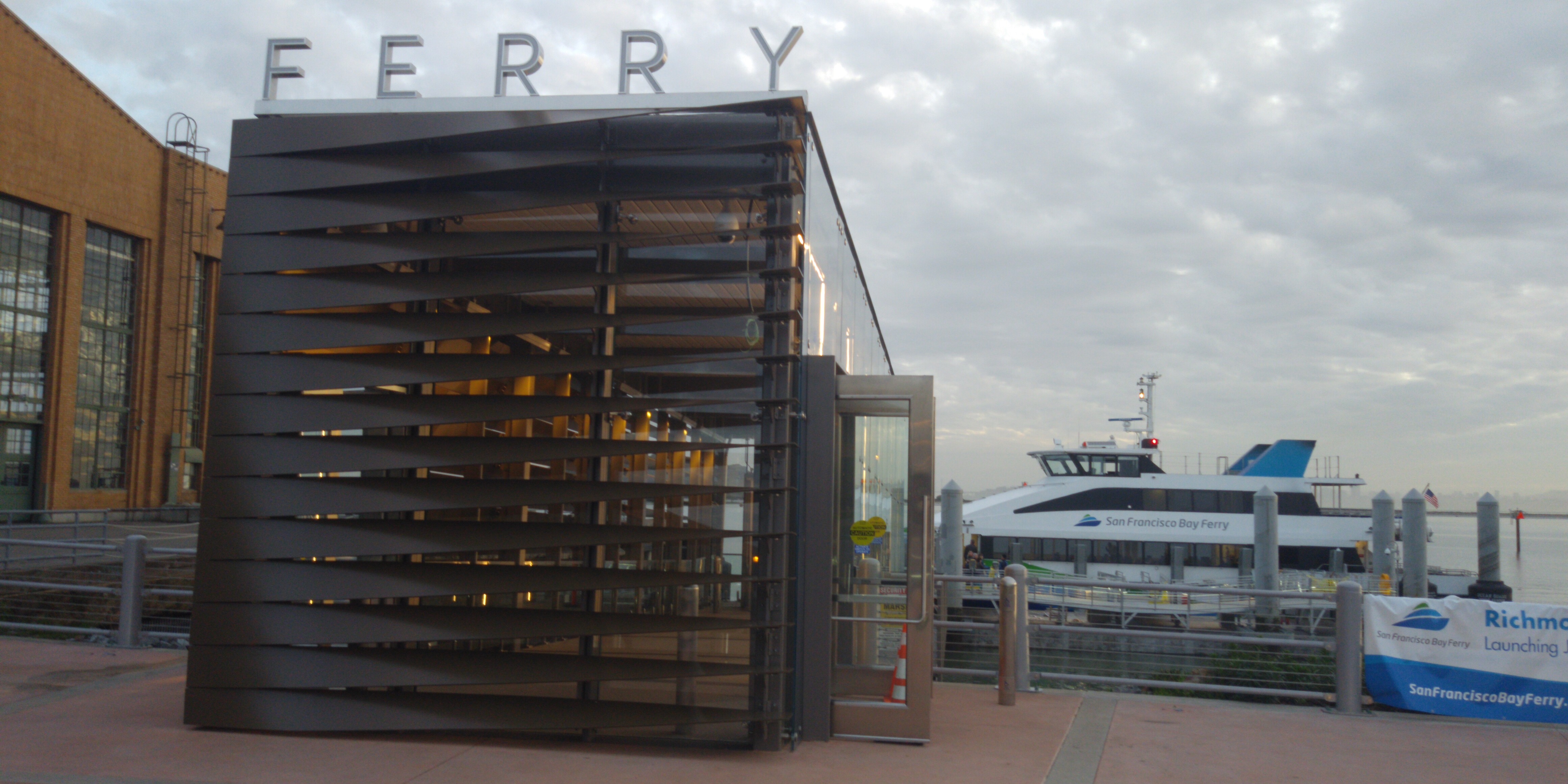 Richmond Ferry Terminal entrance with ferryboat docked and Craneway Pavilion on the left